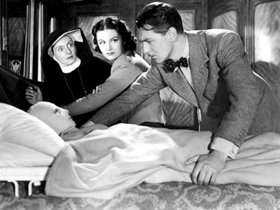 Promotional still from the 1938 film The Lady Vanishes, published in National Board of Review Magazine